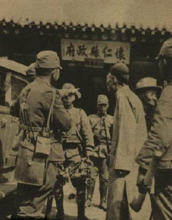 Huairen County during Japanese occupation in the 2nd Sino-Japanese War